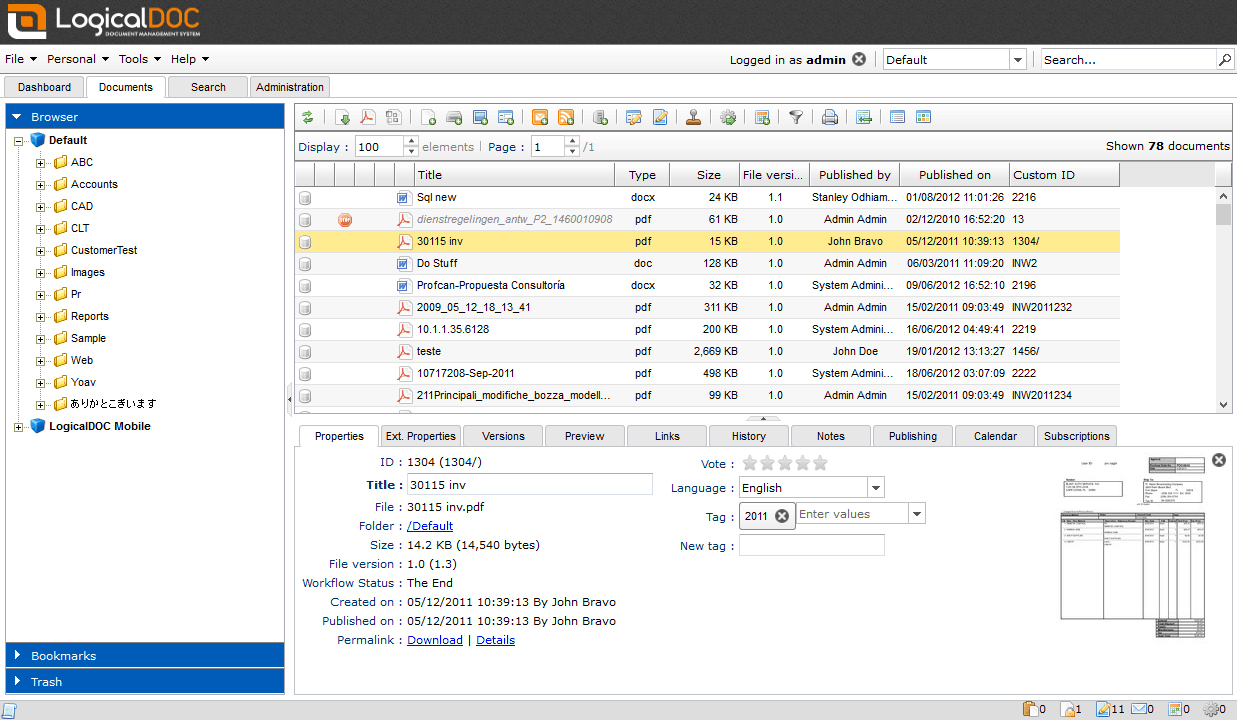 LogicalDOC screeshot